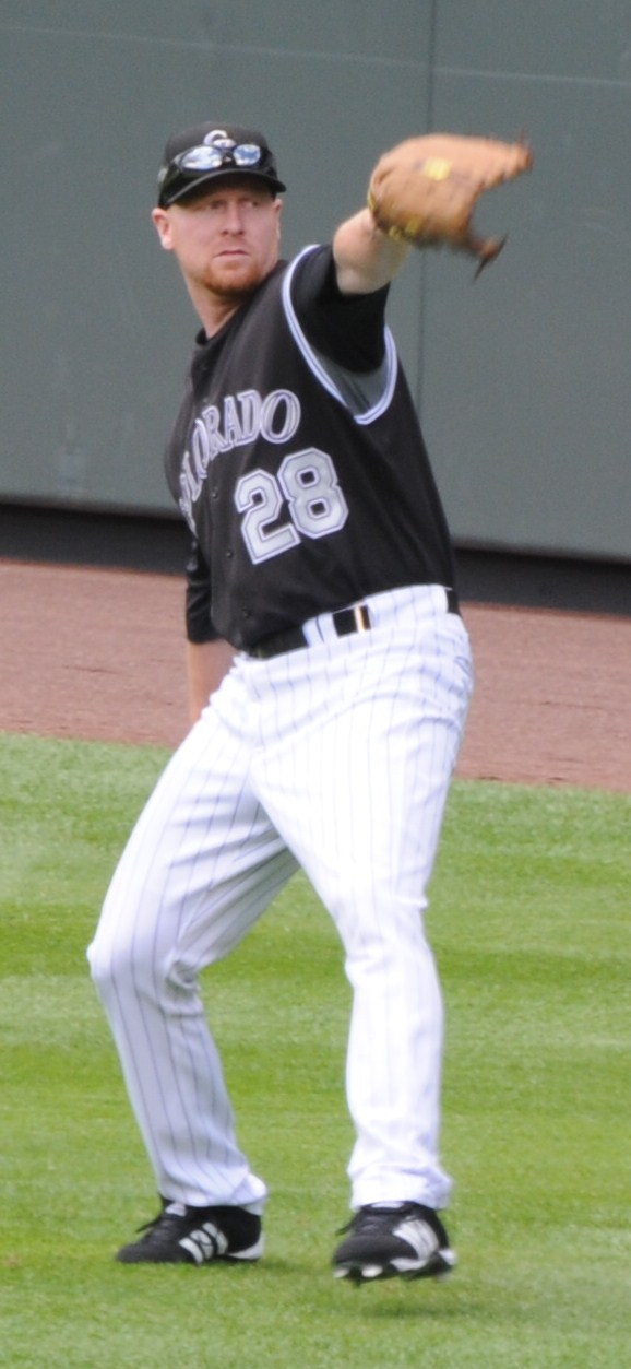 Description own work DateSourceI created this work entirely by myself.AuthorOnetwo1 (talk) 15:49, 8 August 2008 . . Onetwo1 . . 578×1,253 (150 KB) own work